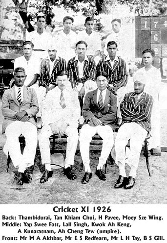 Victoria Institute Cricket Team 1926